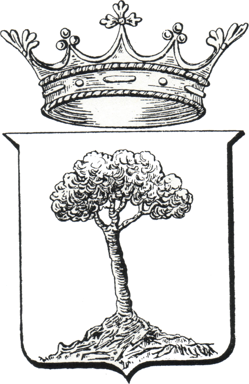 Coat of arms of Nocera de' Pagani